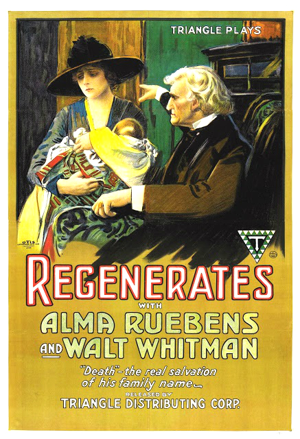 Poster for the 1917 film The Regenerates with Alma Rubens and Walt Whitman (1859 – 1928).